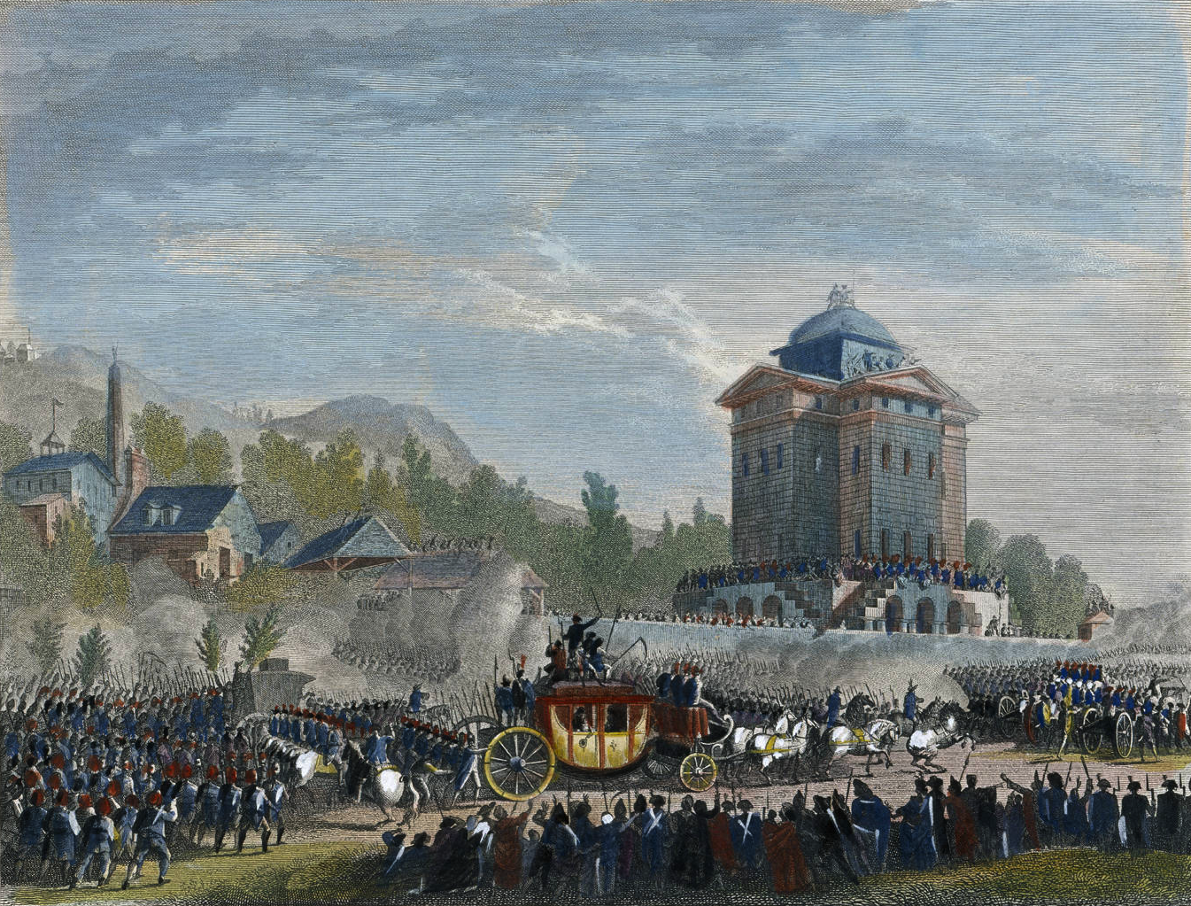 The tall building is the Barrière du Roule, part of the Wall of the Farmers-General, and designed by the architect Claude Nicolas Ledoux.